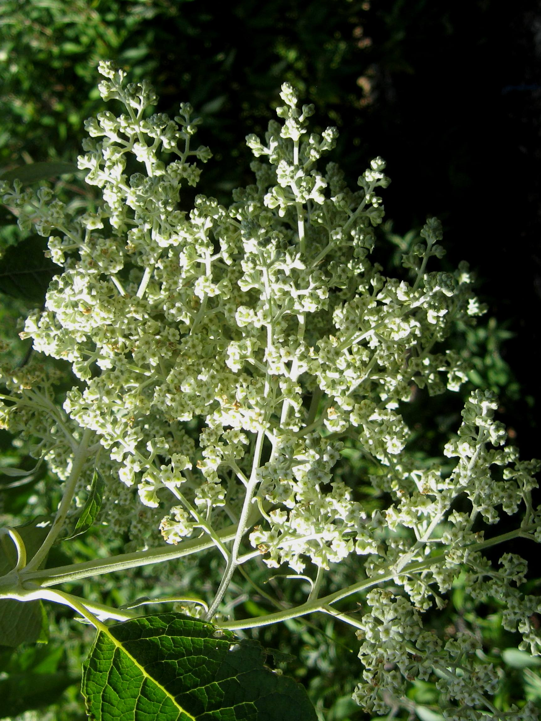 Photo of Buddleja cordata panicle taken at Longstock Park, August 2012